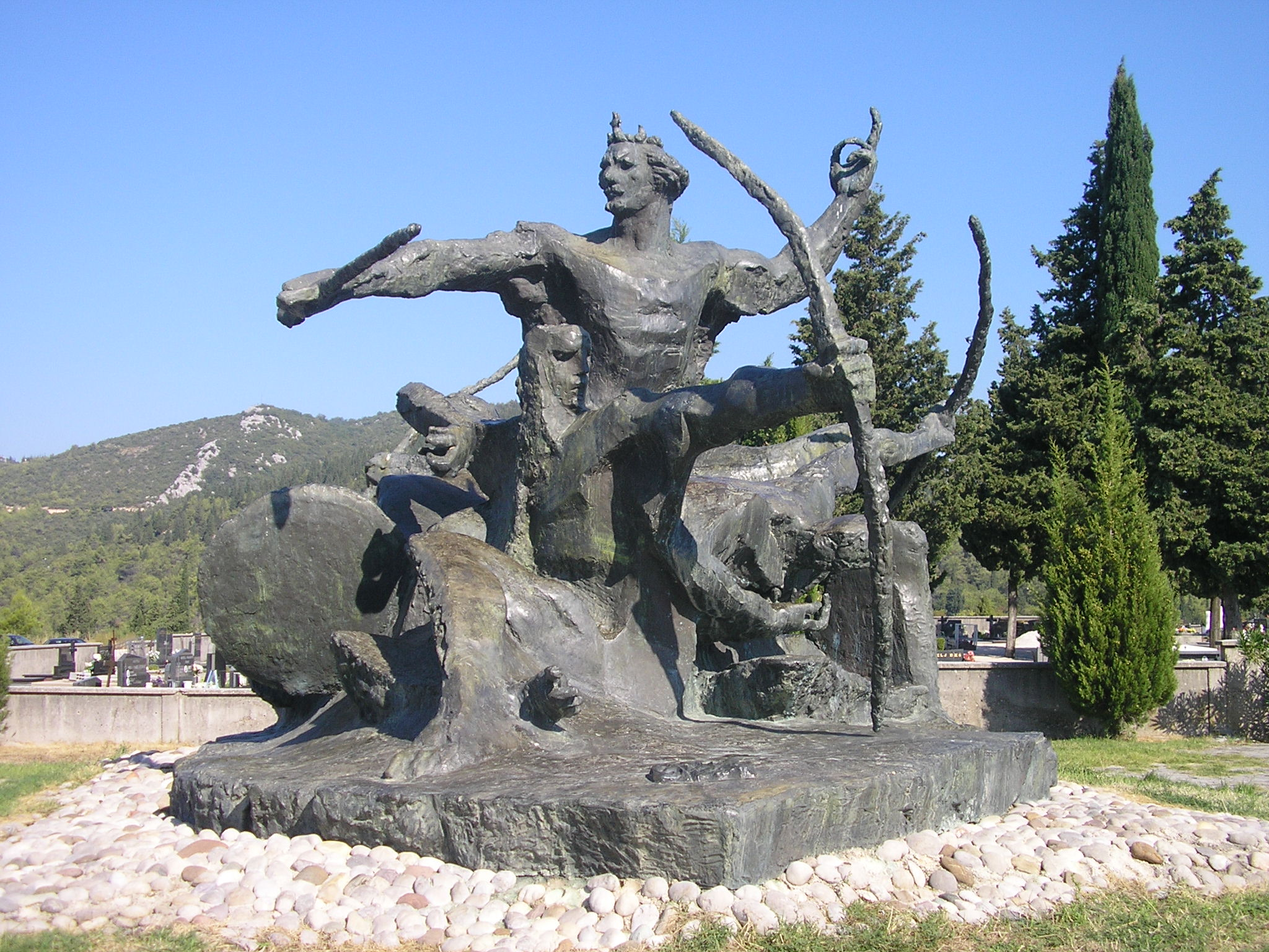 Domagoj archers monument in Vid, Croatia